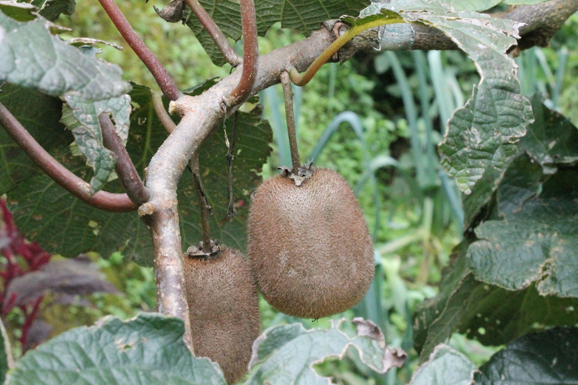 Kiwifruit in Nepal.